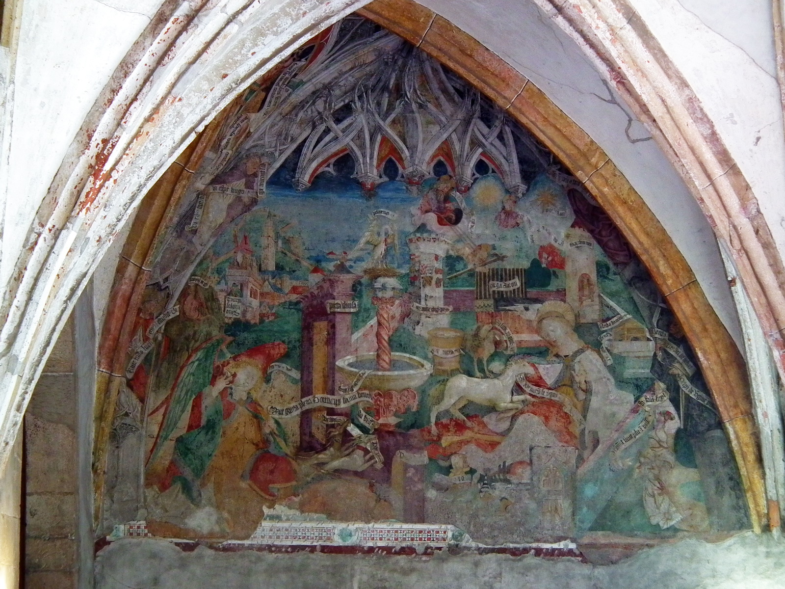 Frescos in the Cloister Church of the Dominican Order Native nameChiesa dei DomenicaniLocationBolzano, ItalyCoordinates46° 29′ 51.39″ N, 11° 21′ 07.39″ E